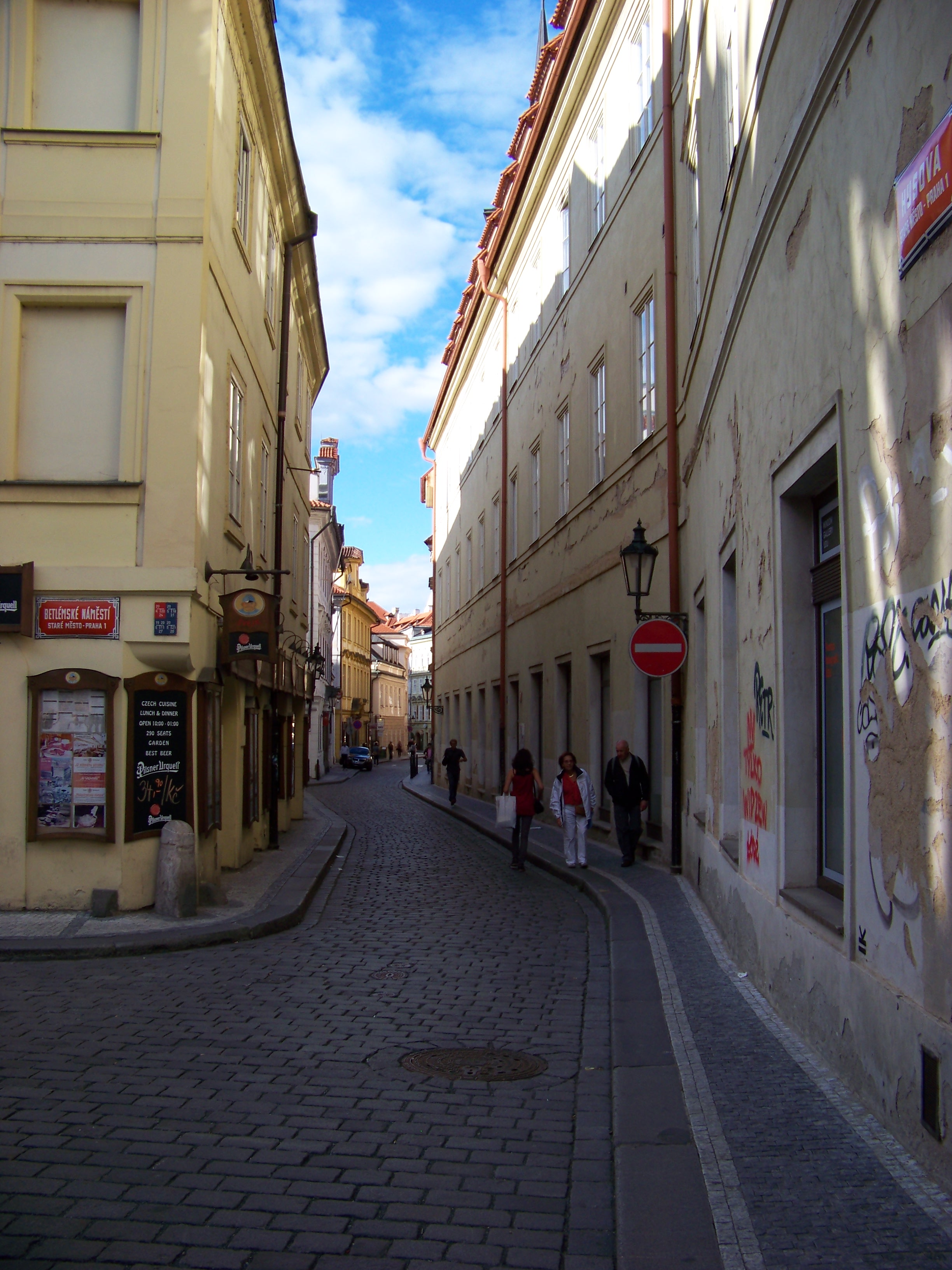 Prague-Old Town. Husova street, from Na Perštýně street.